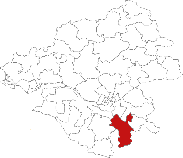 Map of canton of France : Canton d'Aigrefeuille-sur-Maine, Loire-Atlantique, France